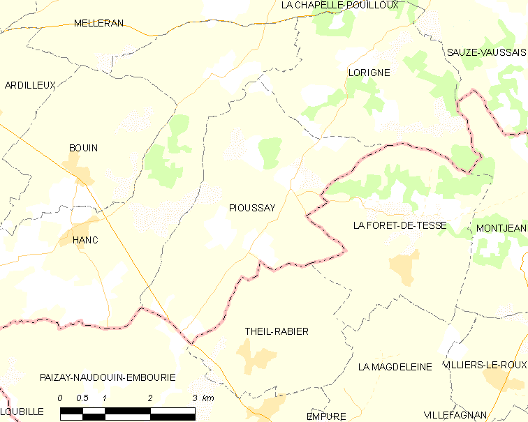 Map of French municipality Pioussay